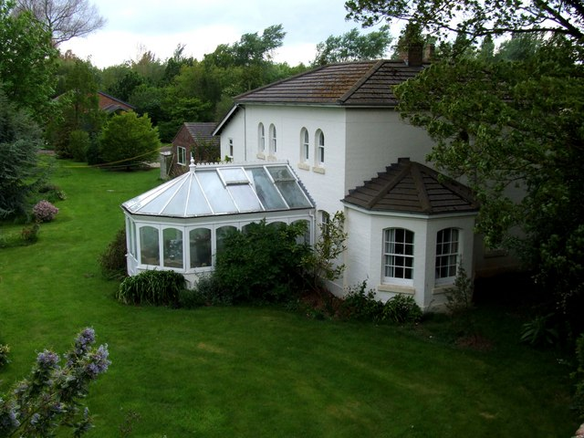 Former Railway Station at Halton Holegate Now a private residence.